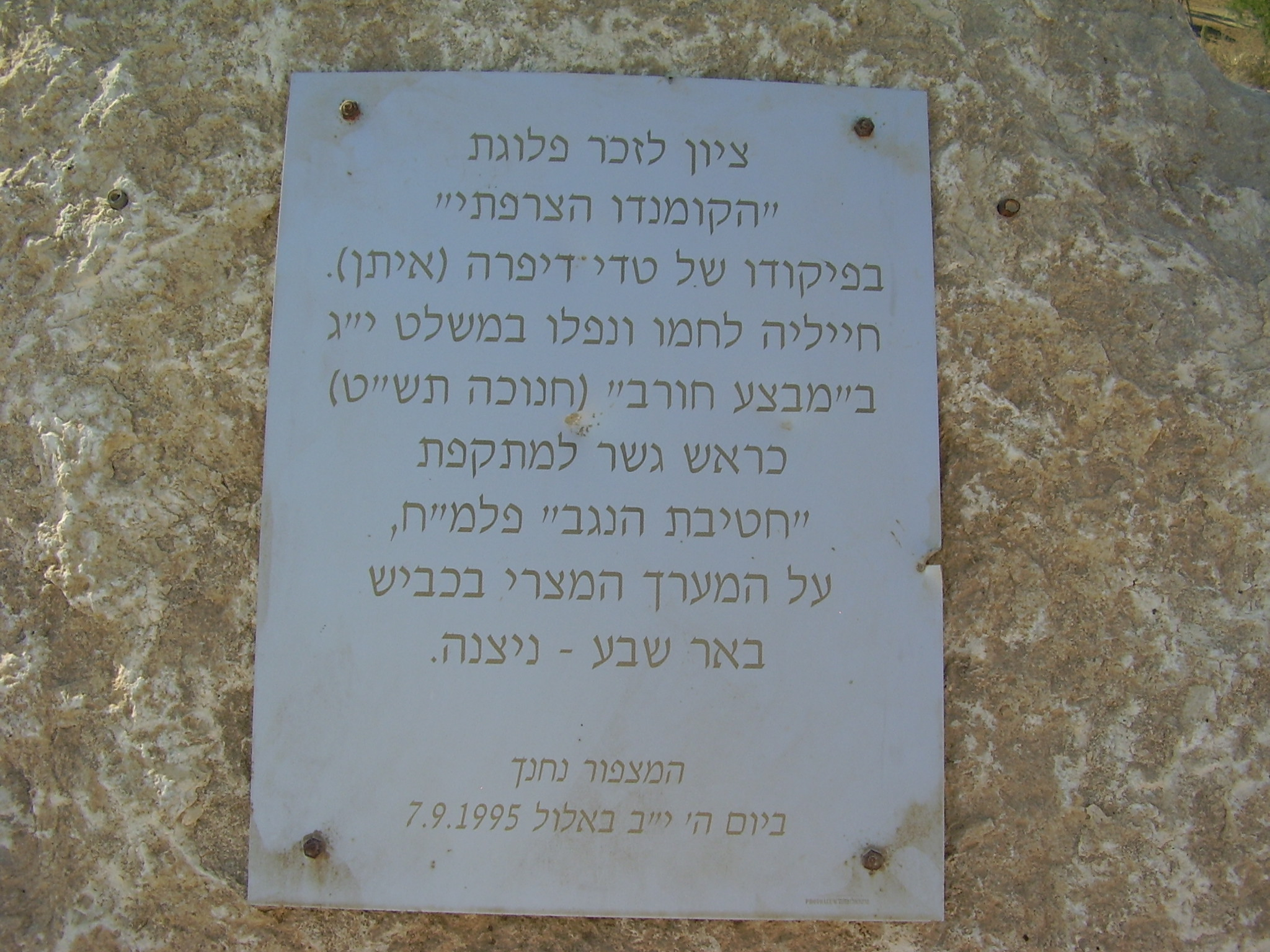 French commandos Lookout in the Negev